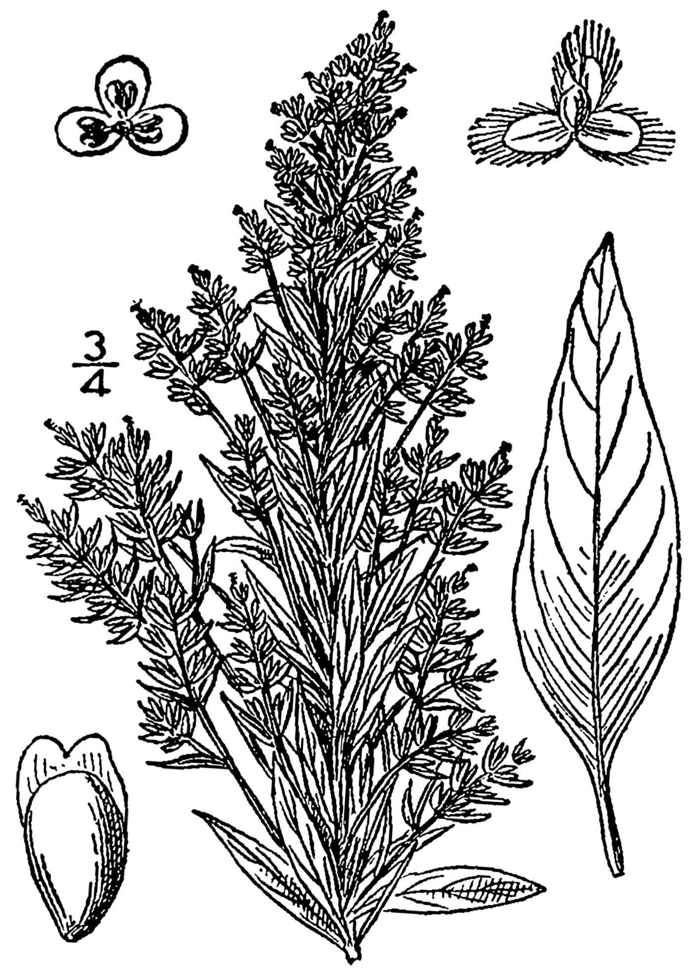 Axyris amaranthoides L. - Russian pigweed